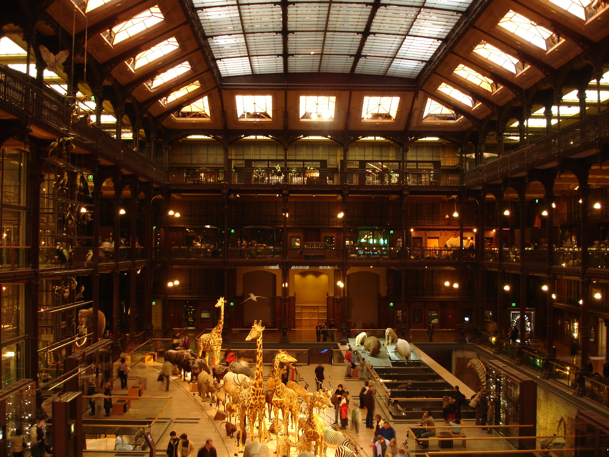 This is a view of the main central space inside the grande galerie de l'Évolution (called in English the Gallery of Evolution) of the French National Museum of Natural History, in Paris (France).